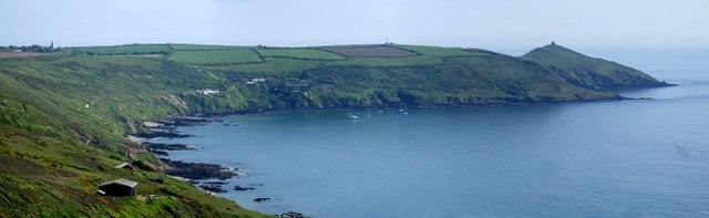 Rame peninsula. This panoramic shot of the Rame peninsula takes in its sweep from Rame Church (far left at SX426491) to the chapel on Rame Head (the little square, far right at SX418483 ). Between these but nearer the latter can just be made out the mast of the Coast Guard station (at SX420487). Nearer sea-level the buildings clustered towards the left are at Polhawn, with Polhawn Fort, dating from Napoleonic times, the rightmost of these. A clutch of boats can be seen dotting the sea near the coves (Polhawn, Crane and Long) of this coast. The photo was taken from the coast road - also known as the Military Road - that runs along the top of the cliffs above Whitsand Bay. The actual spot it was taken from is directly above 529712 which lie on the sands due south west, and about 350' (100m) below.